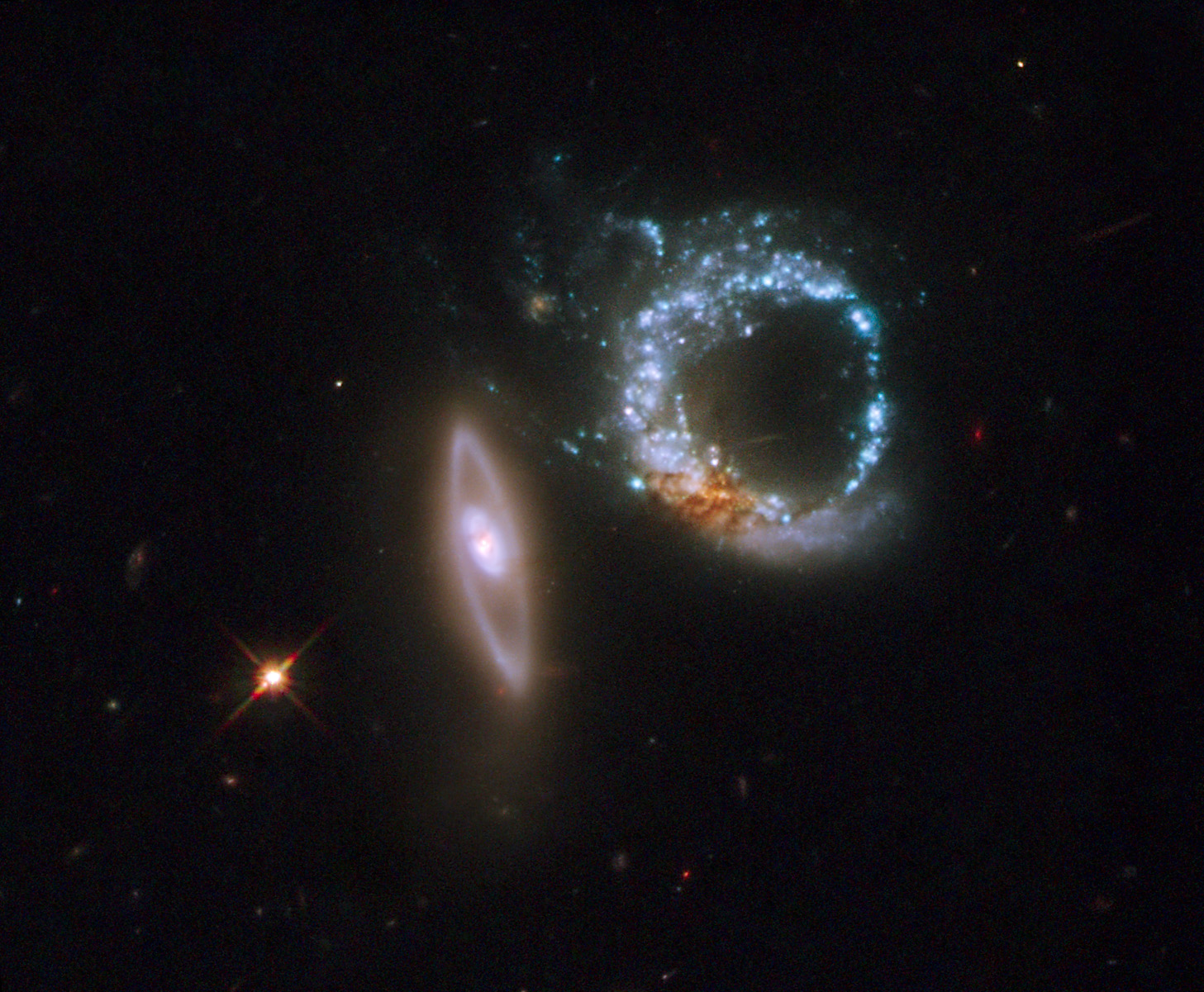 NASA's Hubble Space Telescope is back in business. Just a couple of days after the orbiting observatory was brought back online, Hubble aimed its prime working camera, the Wide Field Planetary Camera 2 (WFPC2), at a particularly intriguing target, a pair of gravitationally interacting galaxies called Arp 147. The image demonstrated that the camera is working exactly as it was before going offline, thereby scoring a "perfect 10" both for performance and beauty. The two galaxies happen to be oriented so that they appear to mark the number 10. The left-most galaxy, or the "one" in this image, is relatively undisturbed apart from a smooth ring of starlight. It appears nearly on edge to our line of sight. The right-most galaxy, resembling a zero, exhibits a clumpy, blue ring of intense star formation. The blue ring was most probably formed after the galaxy on the left passed through the galaxy on the right. Just as a pebble thrown into a pond creates an outwardly moving circular wave, a propagating density wave was generated at the point of impact and spread outward. As this density wave collided with material in the target galaxy that was moving inward due to the gravitational pull of the two galaxies, shocks and dense gas were produced, stimulating star formation. The dusty reddish knot at the lower left of the blue ring probably marks the location of the original nucleus of the galaxy that was hit. Arp 147 appears in the Arp Atlas of Peculiar Galaxies, compiled by Halton Arp in the 1960s and published in 1966. This picture was assembled from WFPC2 images taken with three separate filters. The blue, visible-light, and infrared filters are represented by the colors blue, green, and red, respectively. The galaxy pair was photographed on October 27-28, 2008. Arp 147 lies in the constellation Cetus, and it is more than 400 million light-years away from Earth.